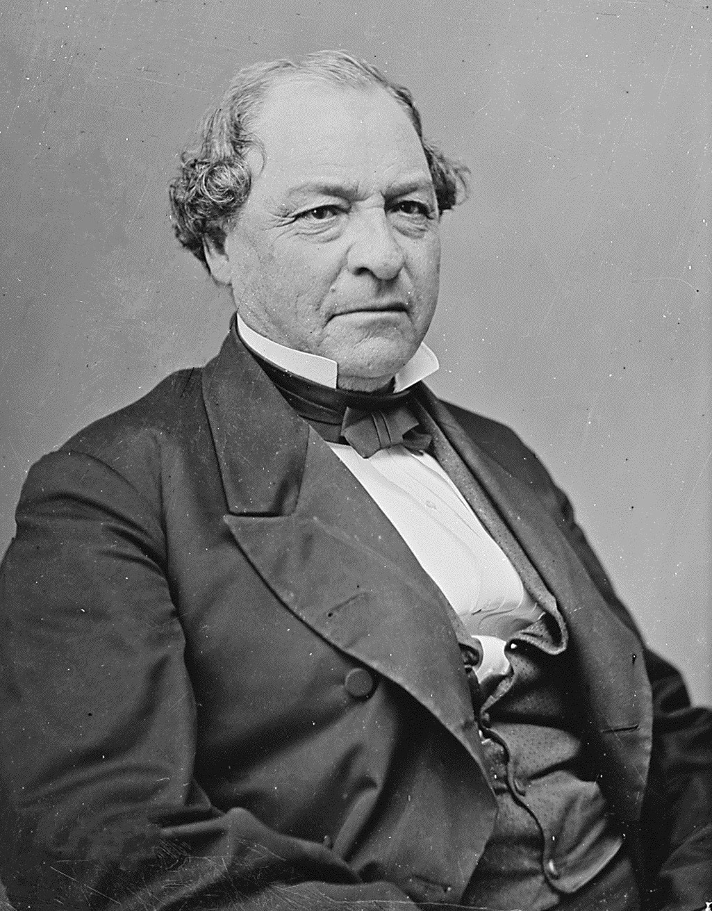 Philadelph Van Trump was a politician from Ohio. Here he is cropped from File:Hon. Philadelph Van Trump, Ohio - NARA - 527899.jpg